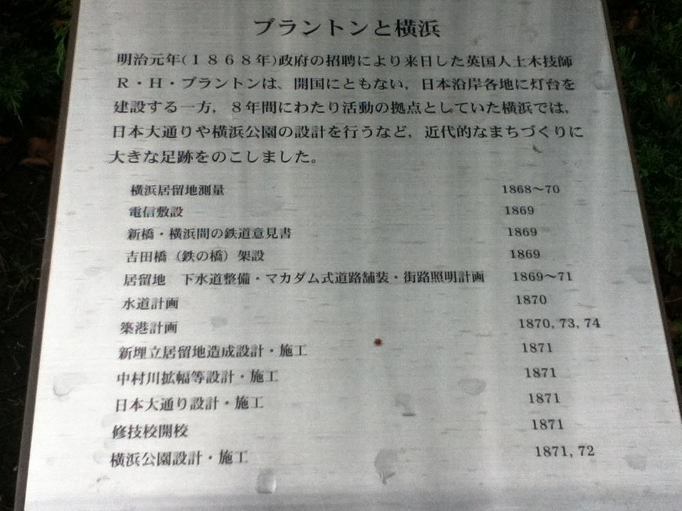 This plaque is next to Brunton's statue which is near Yokohama stadium. It records all he did for Yokohama in the short time he was there. Generally the following explanation is indicated to this plaque: Brunton and Yokohama / British civil engineer R.H.Brunton who visited Japan by governmental invitation in the first year of the Meiji era(1868), While building the lighthouse in each place of a Japanese coast with the opening of a country,in Yokohama which was being made into the base of activity over eight years, left the big footprint to modernistic town planning, such as performing the design of a "Nihon-o-do-ri" street or Yokohama Park.